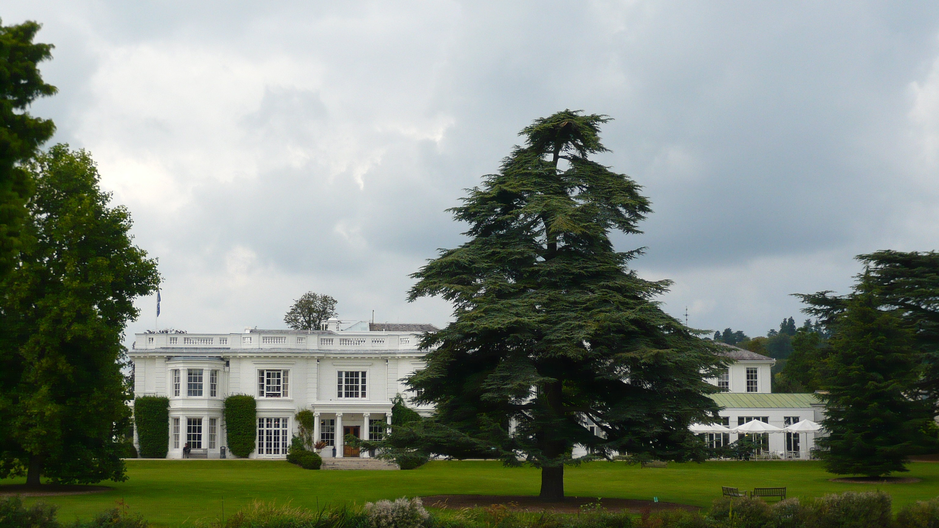 Henley Management College - formerly WH Smith's home - he also owned Hambledon. The Schwartzenbacker's have it now....